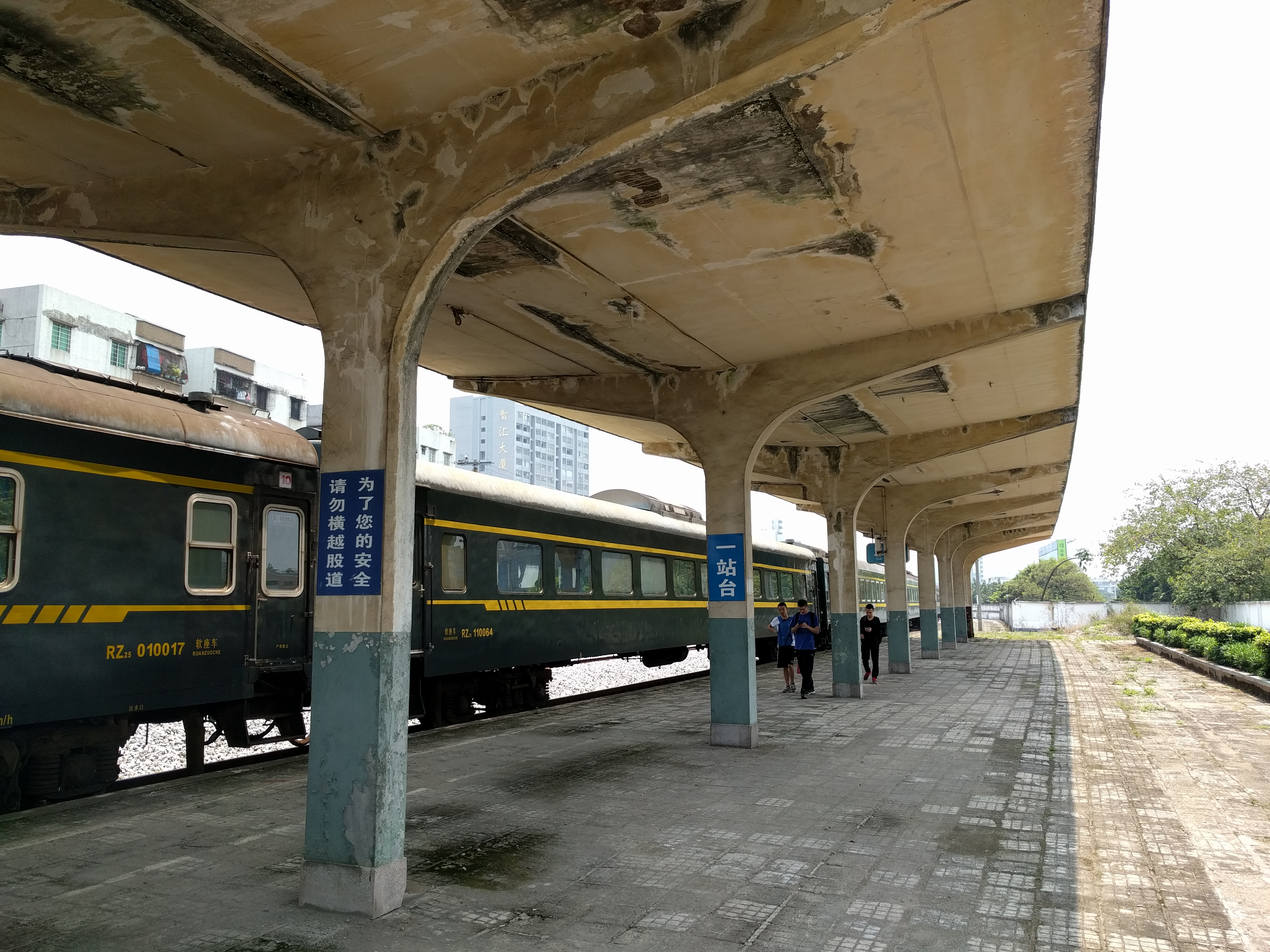 Platform 1 at Sanshui Railway Station, Guangdong Province, China